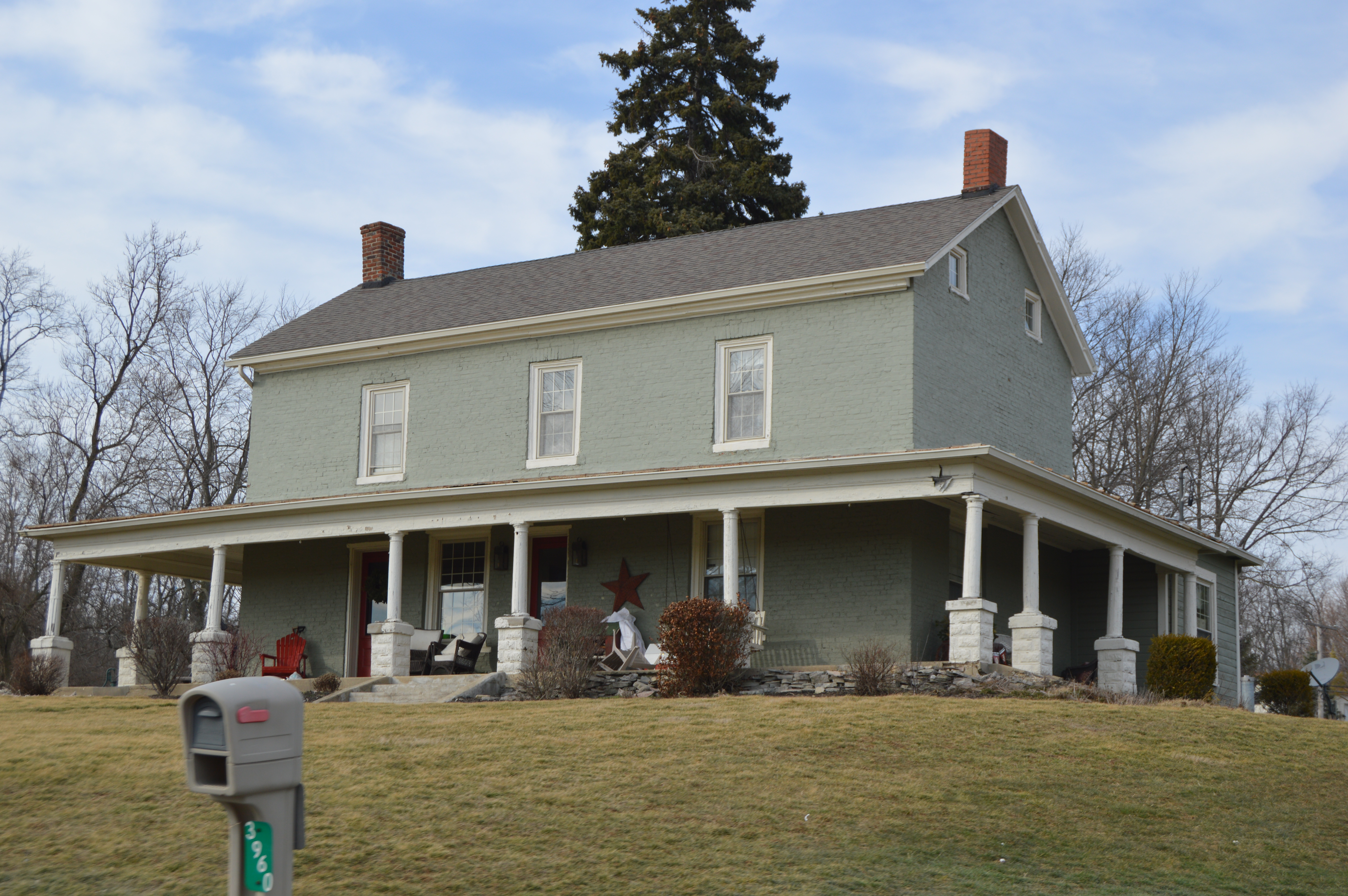 Front and eastern end of a farmhouse (a modified I-house) located at 3960 Bean Road just north of Cable in Wayne Township, Champaign County, Ohio, United States.